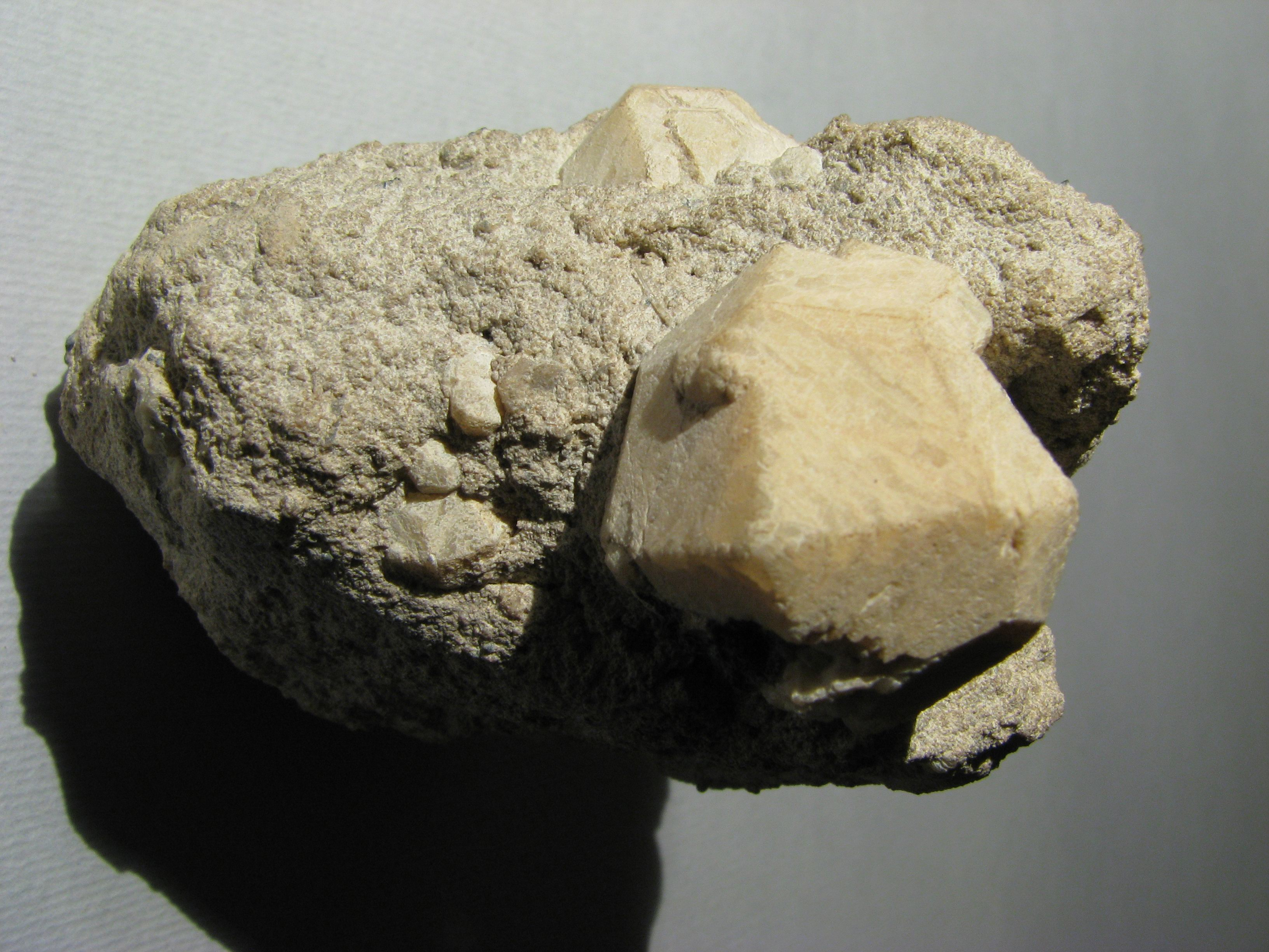 Leucite - Roccamonfina,caserta, Italy